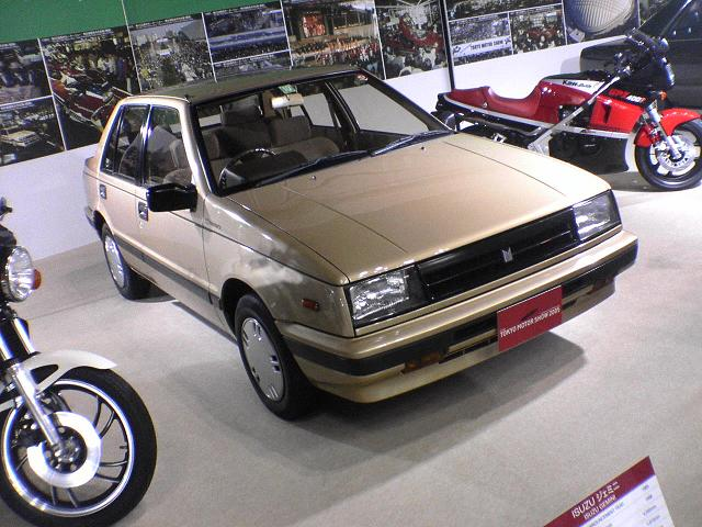 1985-1987 Isuzu Gemini (JT150) sedan.